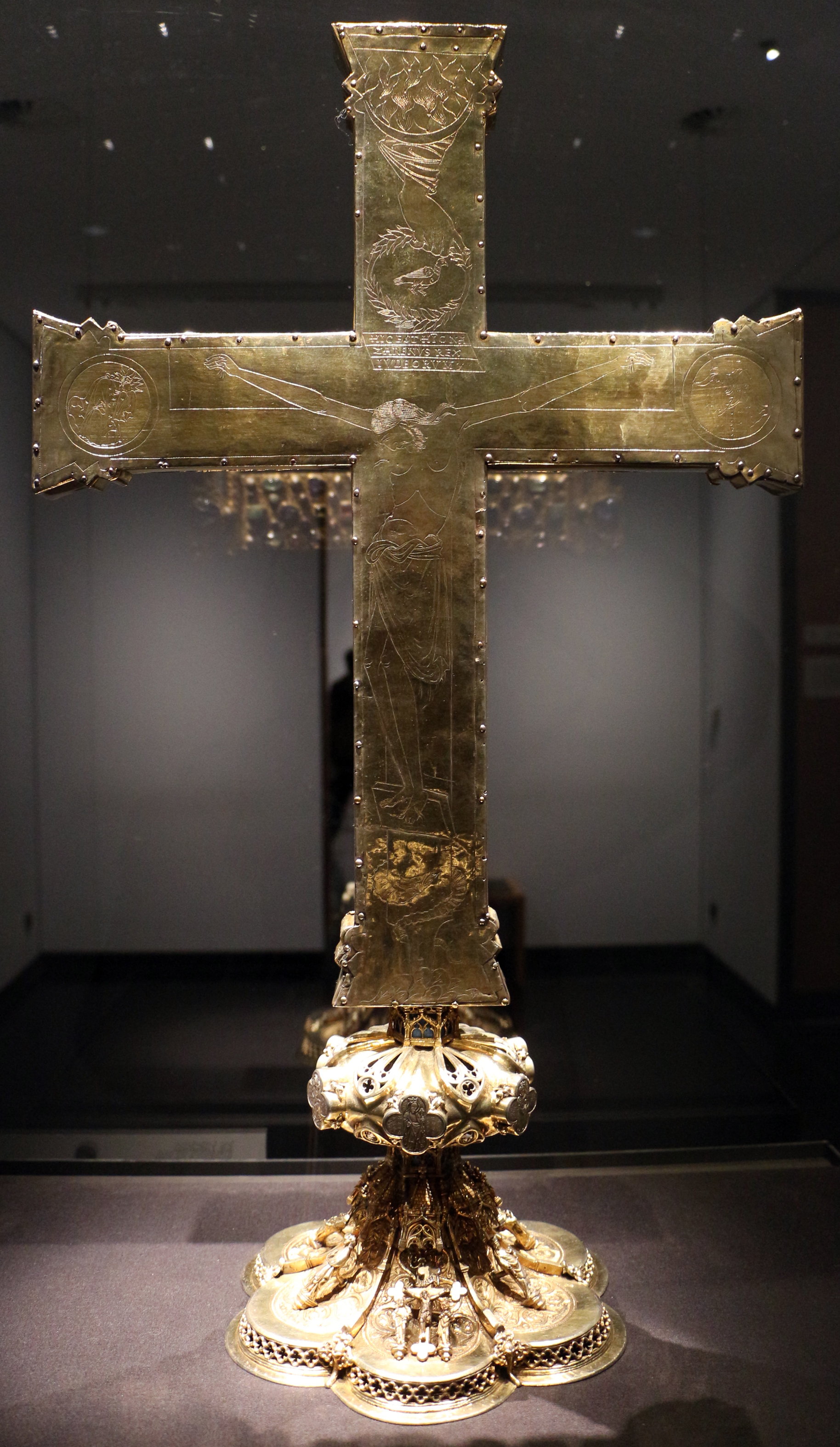 Domschatz, Aachen